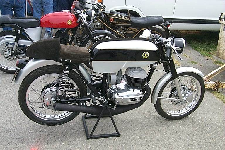 Bultaco Metralla MK2 Kit America, by 1967. Behind it, a Montesa Impala and a Bultaco Streaker (black)